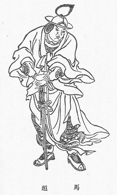 Portrait of the general Ma Chao from a Qing Dynasty edition of The Romance of the Three Kingdoms.